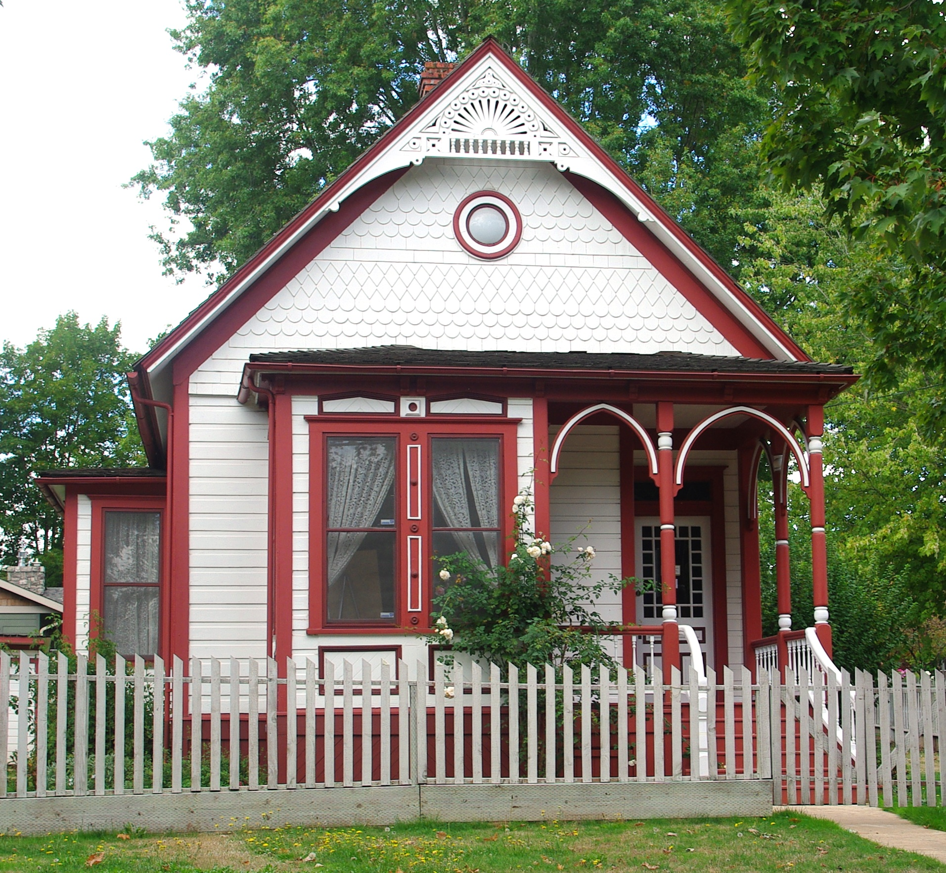 NRHP listed John Tigard House in Tigard, Oregon.